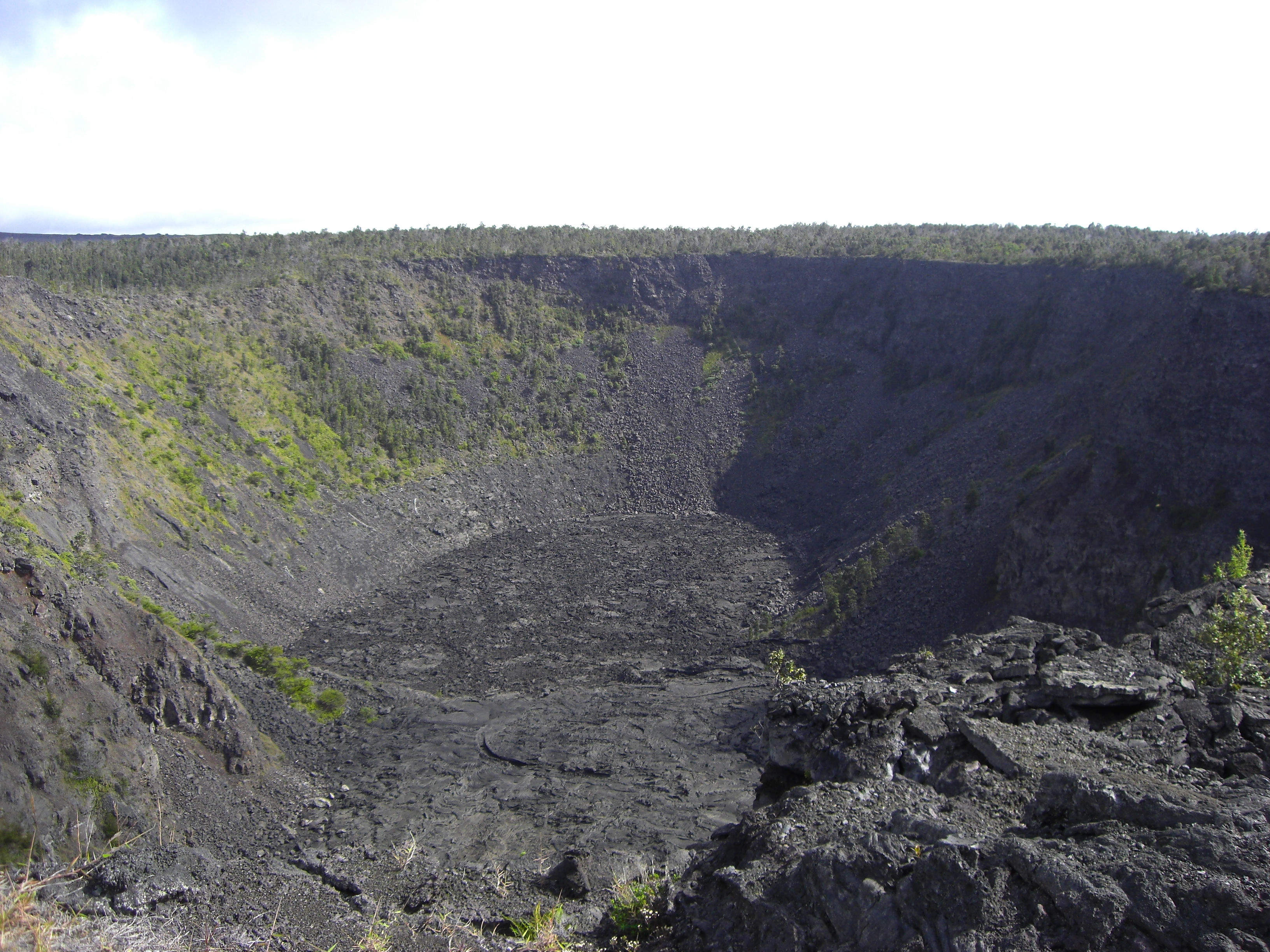 Pauahi crater seen from overlook, Chain of Craters Road, Kilauea, Hawaii, United States